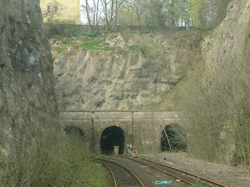 The southern entrance to the Rauenthaler Tunnel in Wuppertal, Germany, as seen from a train, on the right the former Langerfelder Tunnel